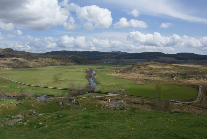 Dunadd Fort, Kilmartin Glen, Scotland - view from fort